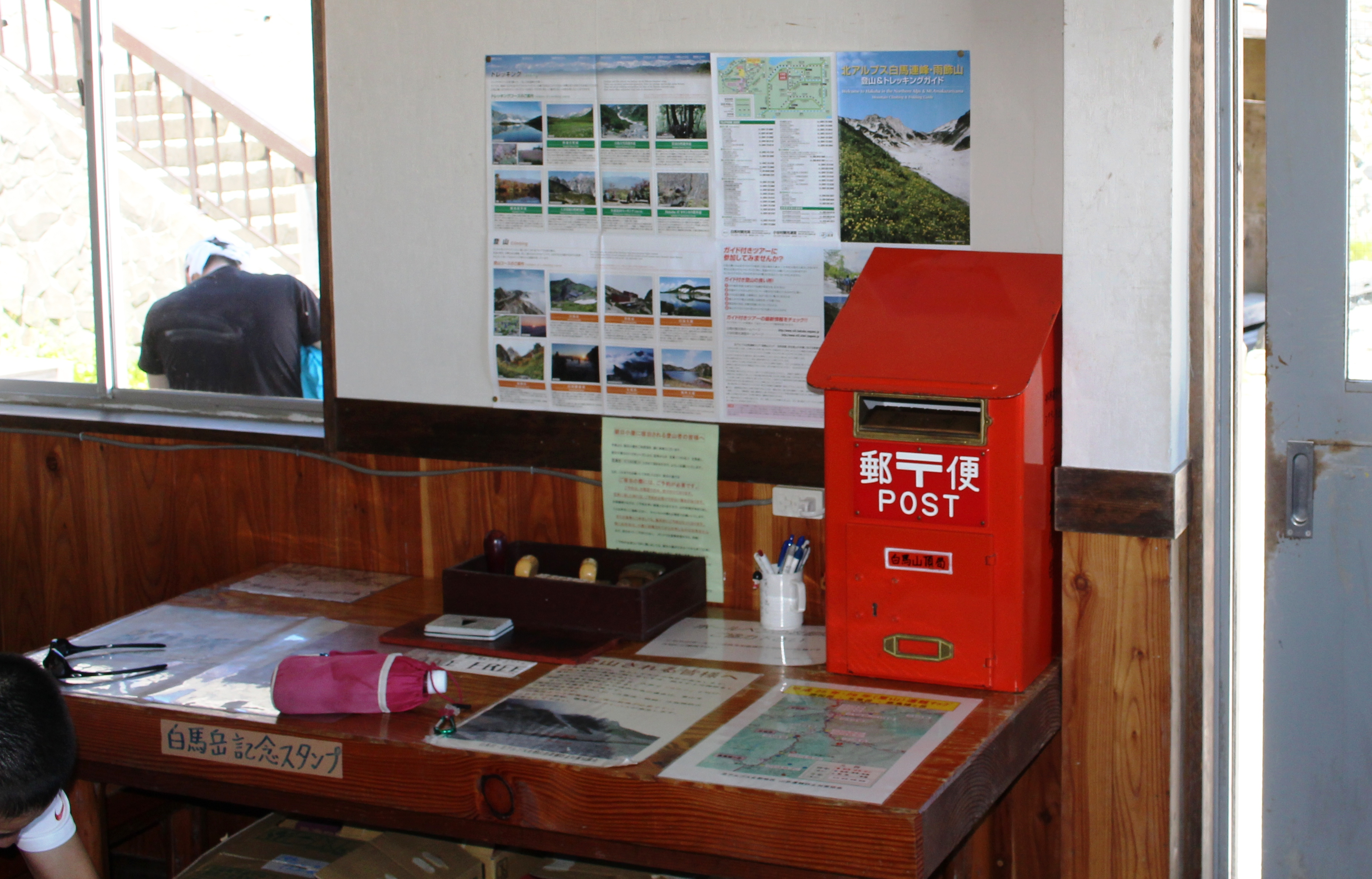 Post box in Hakubadake Chōjōshukusha, in Hakuba, Nagano prefecture, Japan.